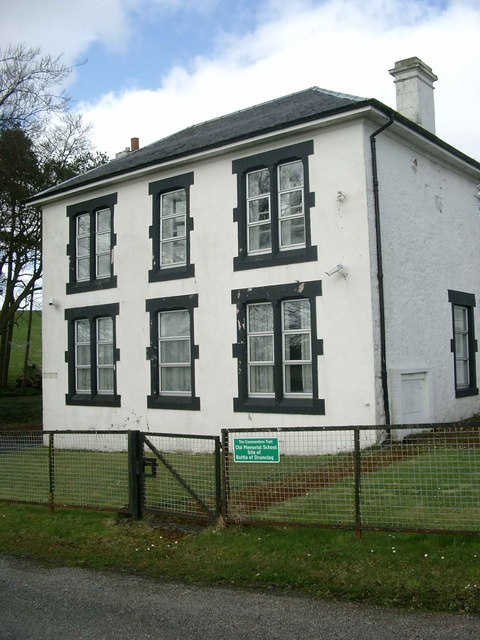 The Old Memorial School, Drumclog The inscription plaque on this building states "On the battlefield of Drumclog, this Seminary of Education was erected, in memory of those Christian Heroes, who on Sabath the 1st of June 1679 nobly fought, in defence of Civil and Religious Liberty". And a new battle is ongoing! There is a proposal to use the building as a centre for the rehabilitation of young offenders. See other photo in this square.